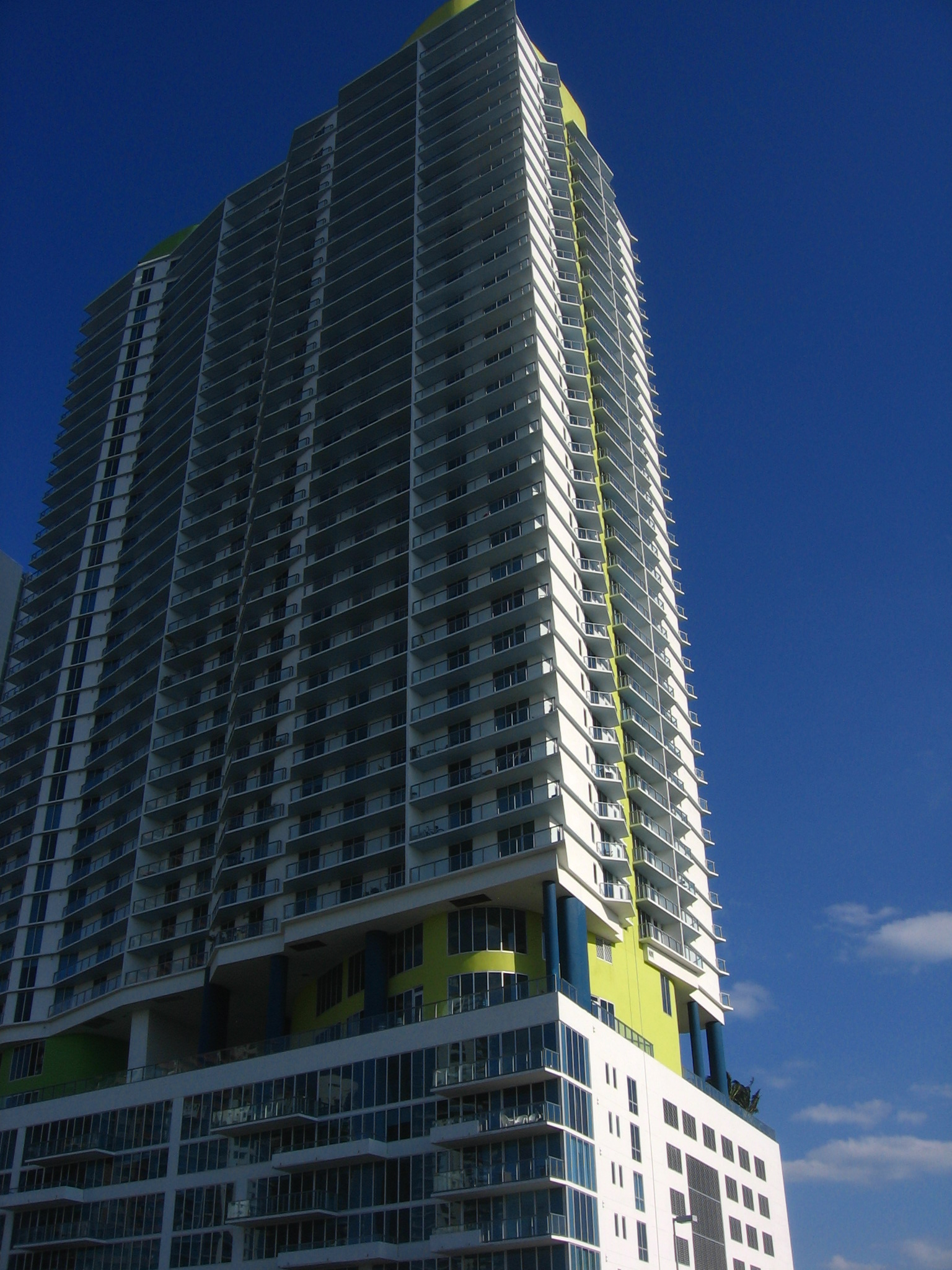 Skyscraper